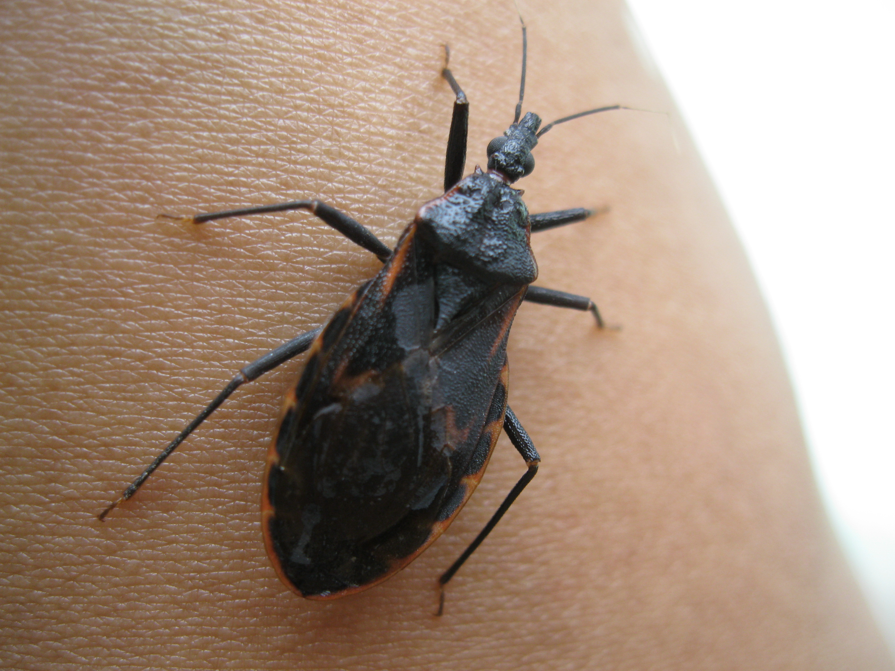 Triatoma is a genus of assassin bug in the subfamily Triatominae (kissing bugs).